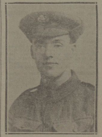 George Sanders of Leeds, England as shown in the newspapers when he was awarded the Victoria Cross